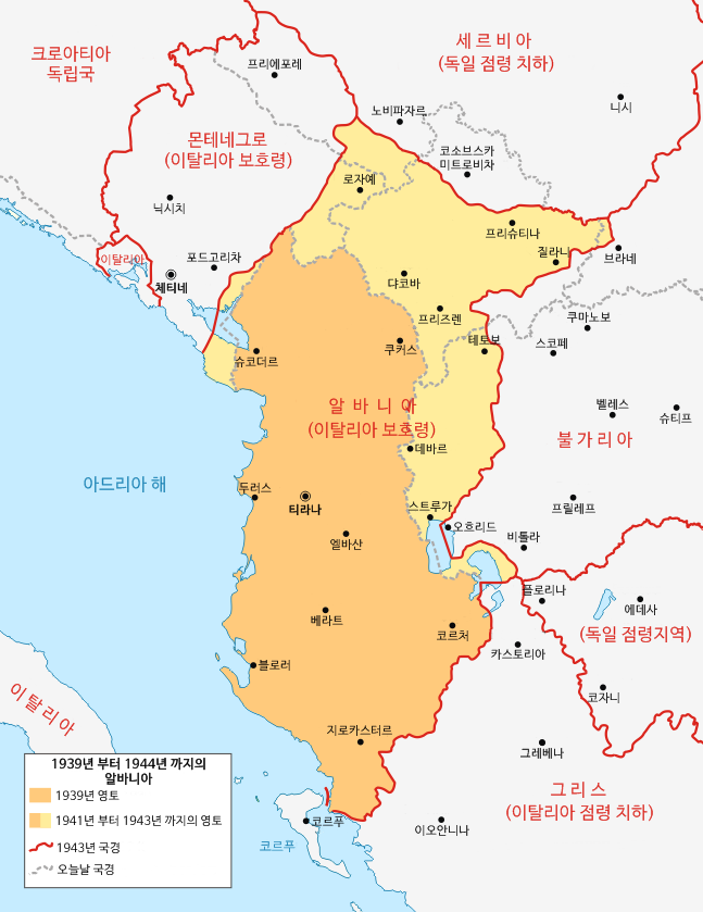 Map of Albania during WWII